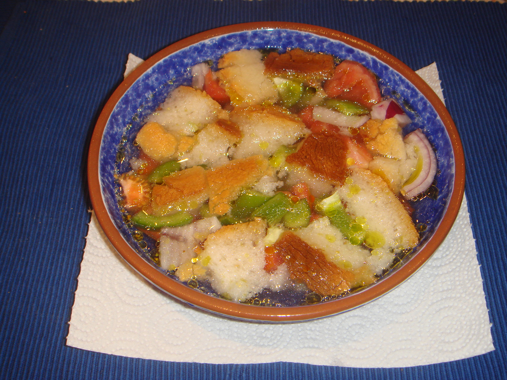 Old Castilian gazpacho in pieces from the province of Ávila, Spain.